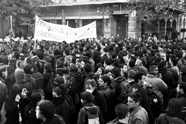 A crowd protests against alleged police brutality.